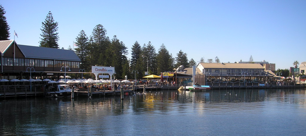 Fremantle, Western Australia Fishing Boat Harbour